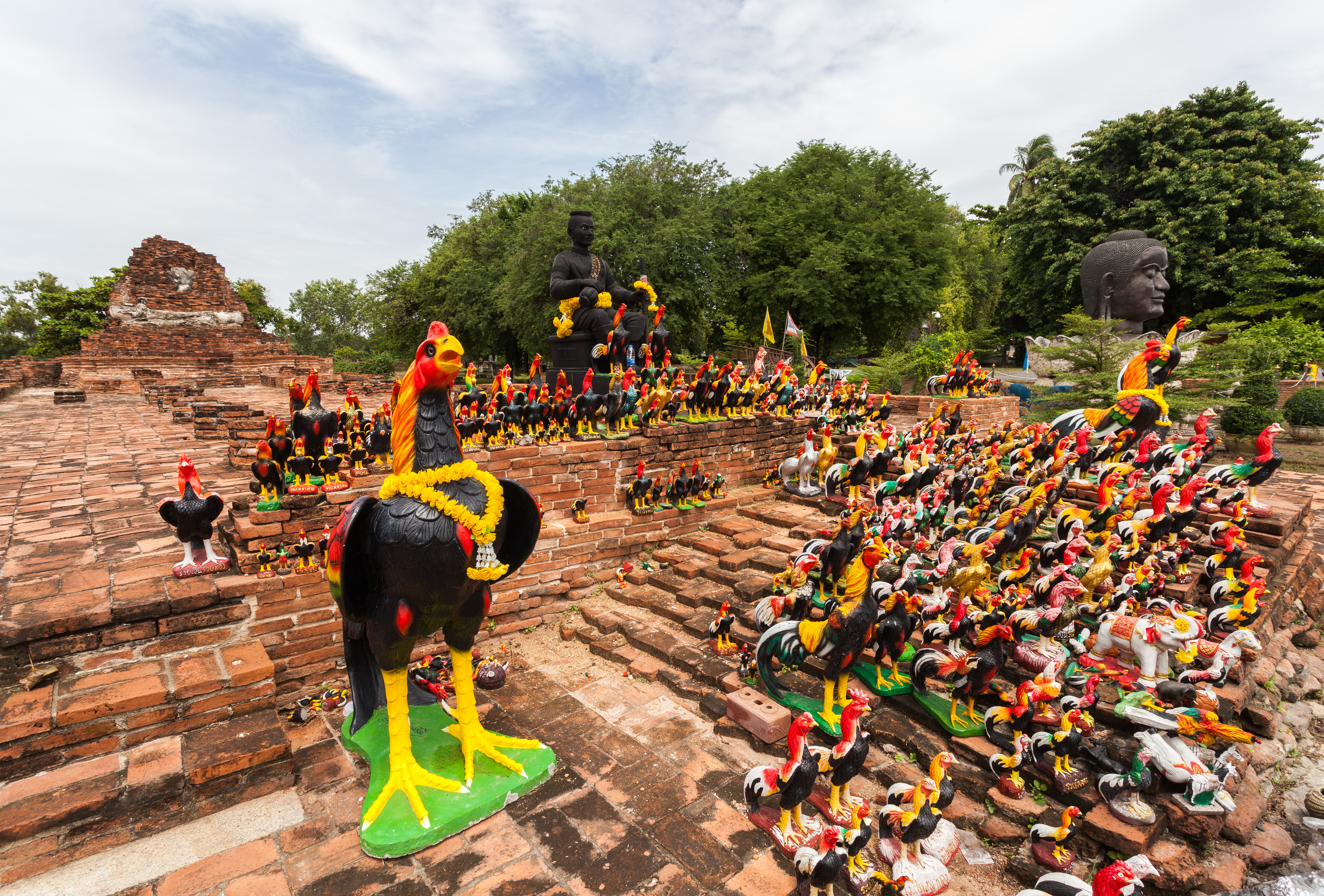 Thammikarat Temple, Ayutthaya, Thailand